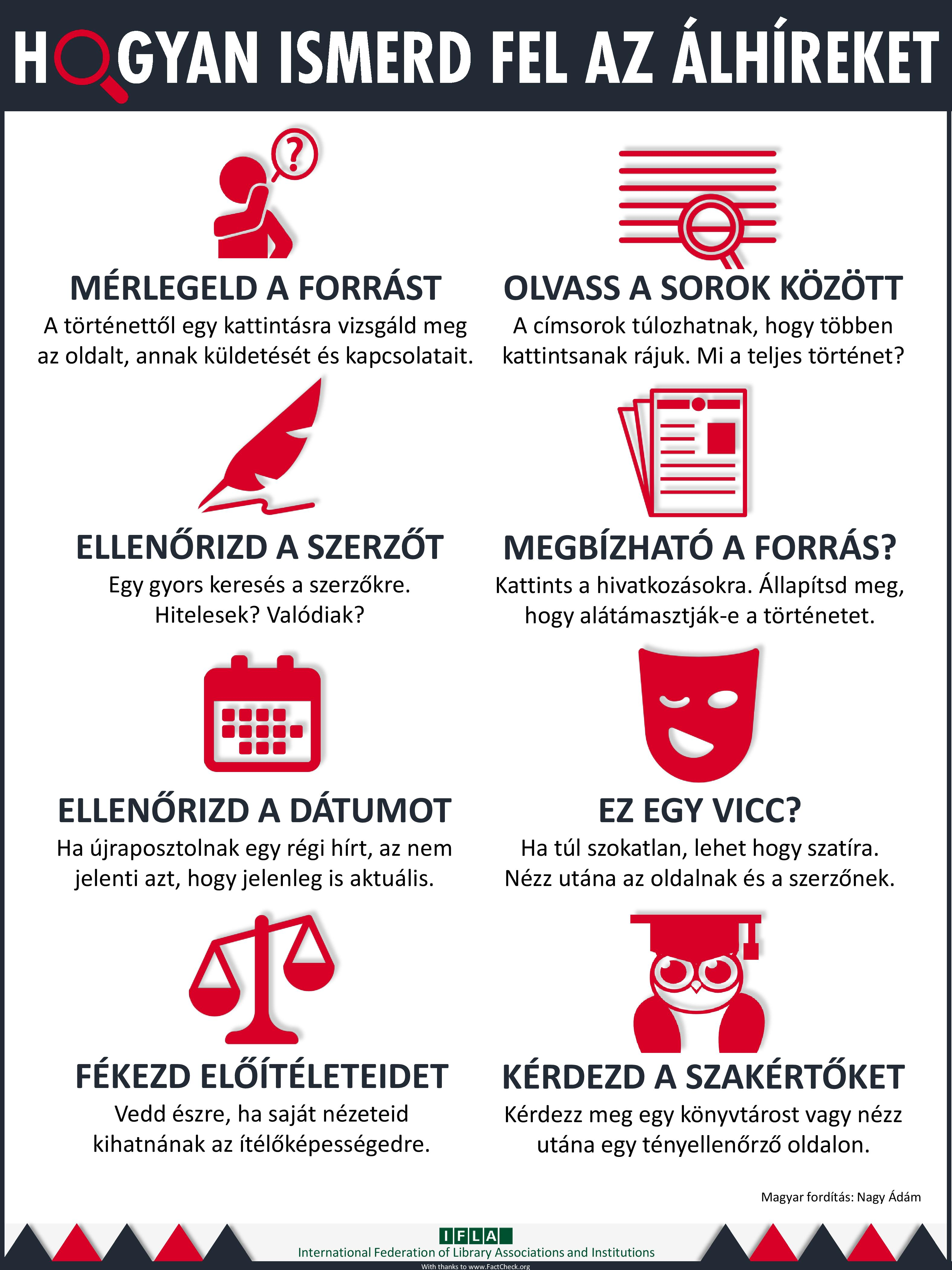 Hungarian translation of IFLA infographic "How to Spot Fake News" in JPG format.